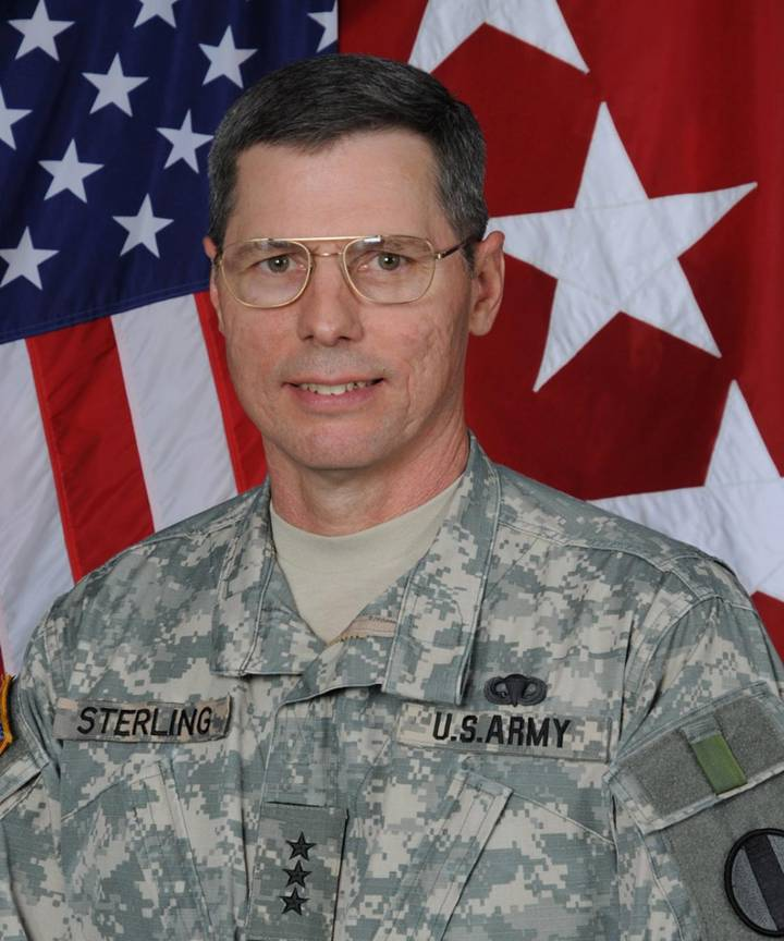 John E. Sterling, Jr., Deputy Commanding General TRADOC